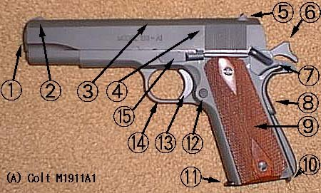 Colt M1911A1, description for parts of handgun.